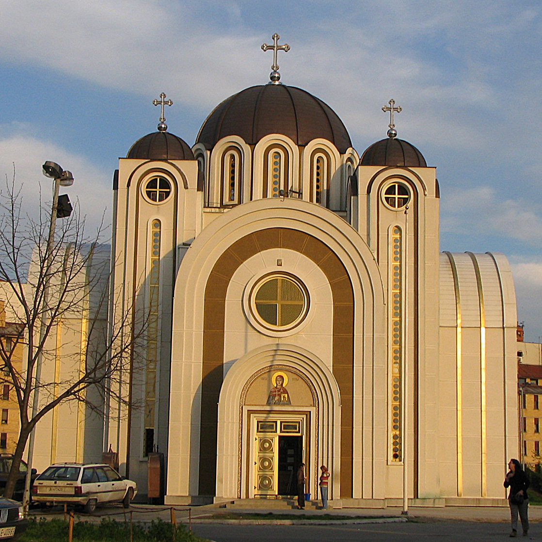 St Petka church on Cukaricka padina, Belgrade